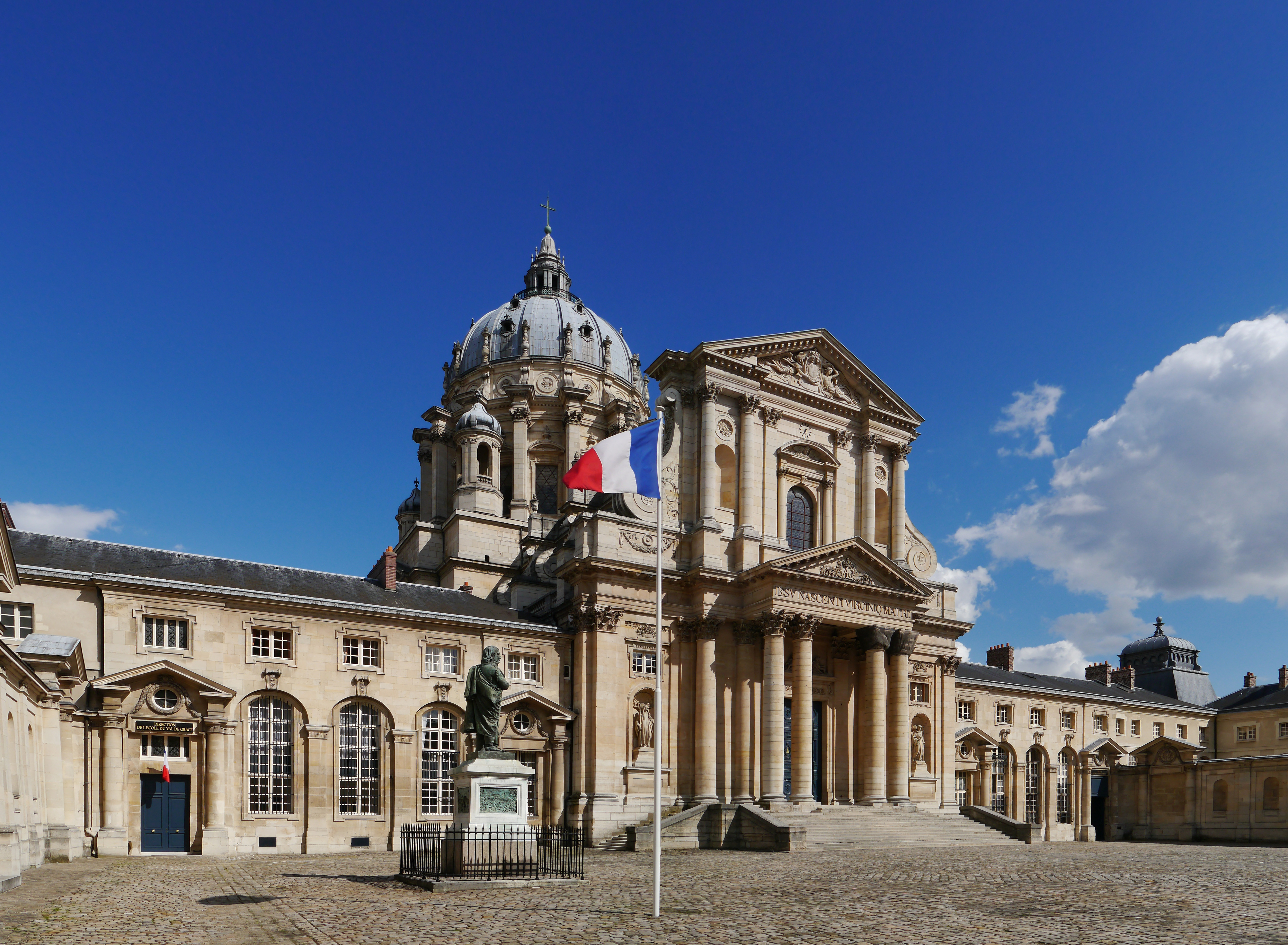 Paris, 5th arrondissement, France. Église du Val-de-Grâce.